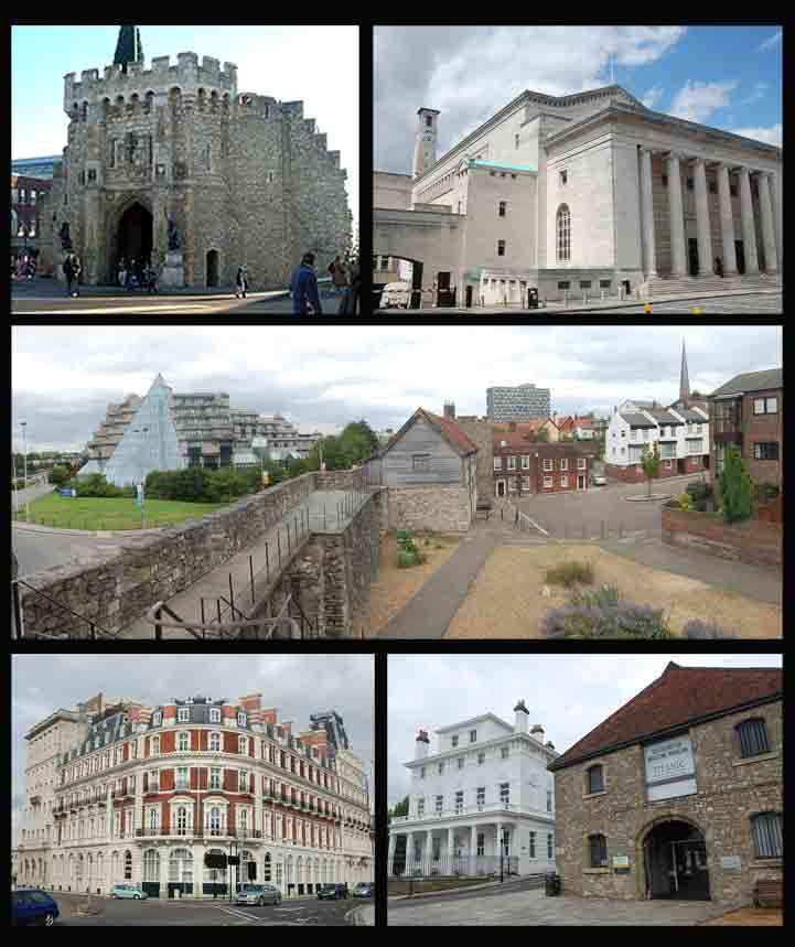 Buildings in Southampton